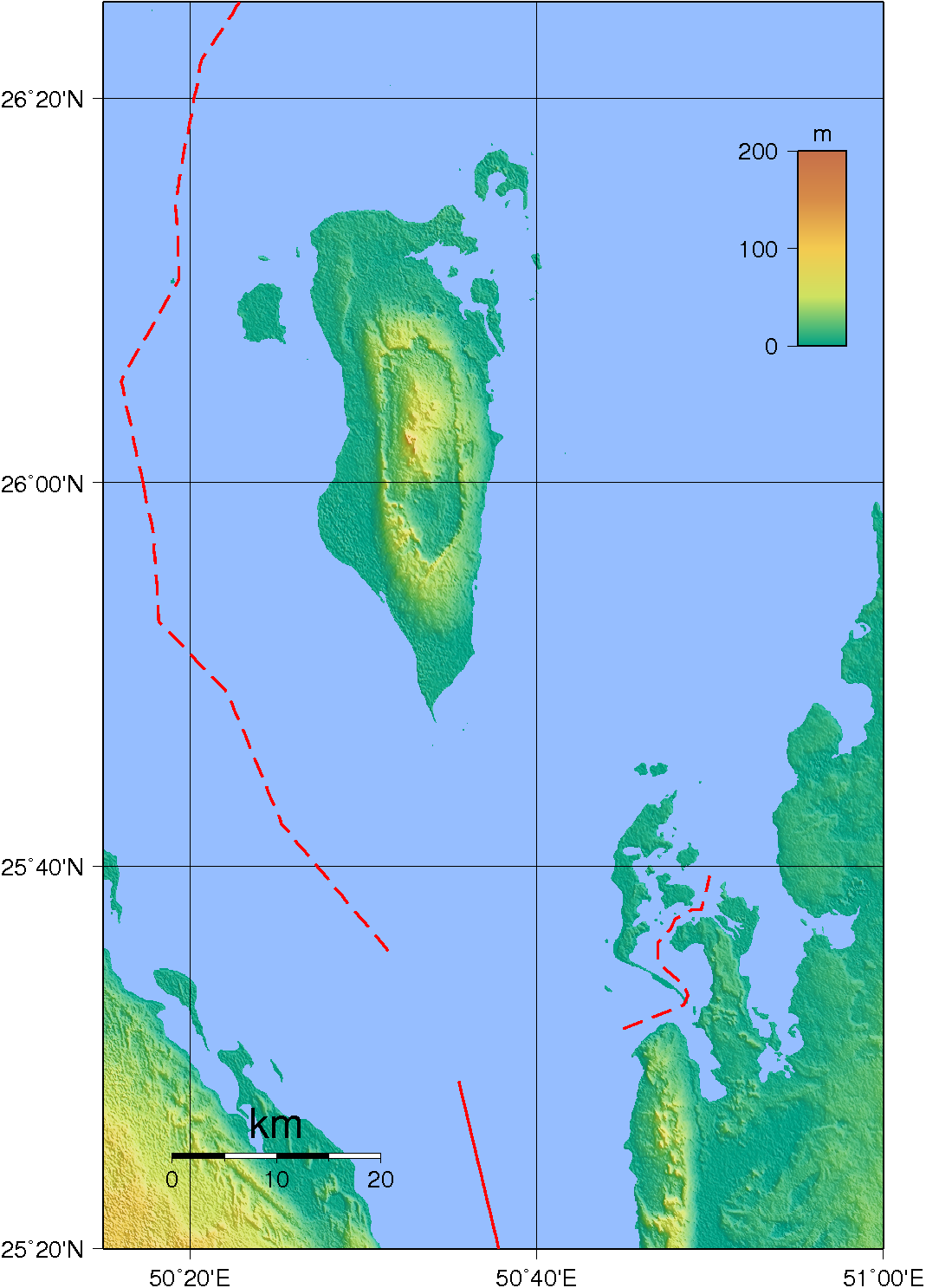 Topographic map of Bahrain. Created with GMT from public dman SRTM data.